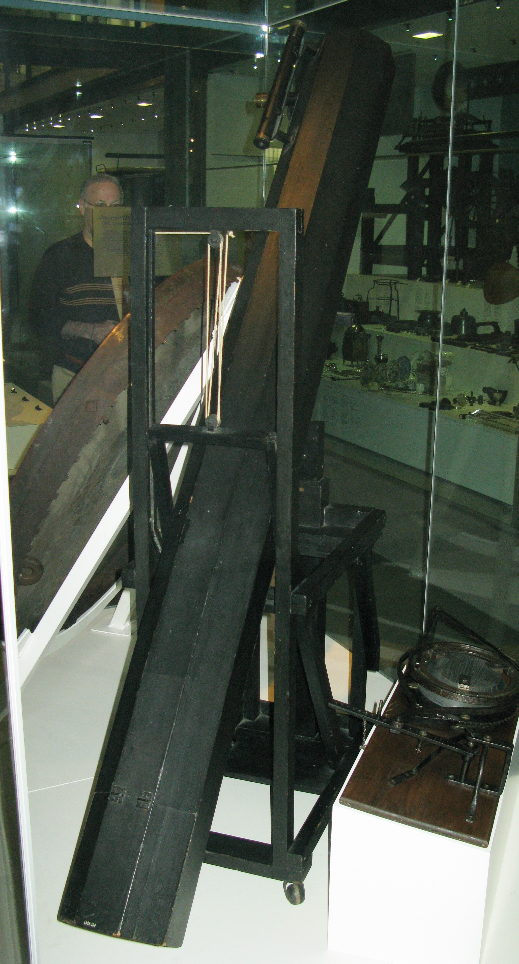 Photo of a telescope that belonged to Caroline Herschel